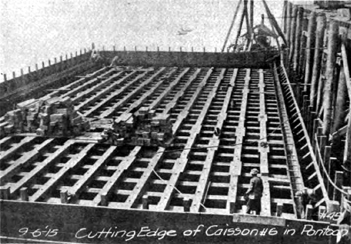 Cutting Edge of Caisson No. 6, Metropolis Bridge